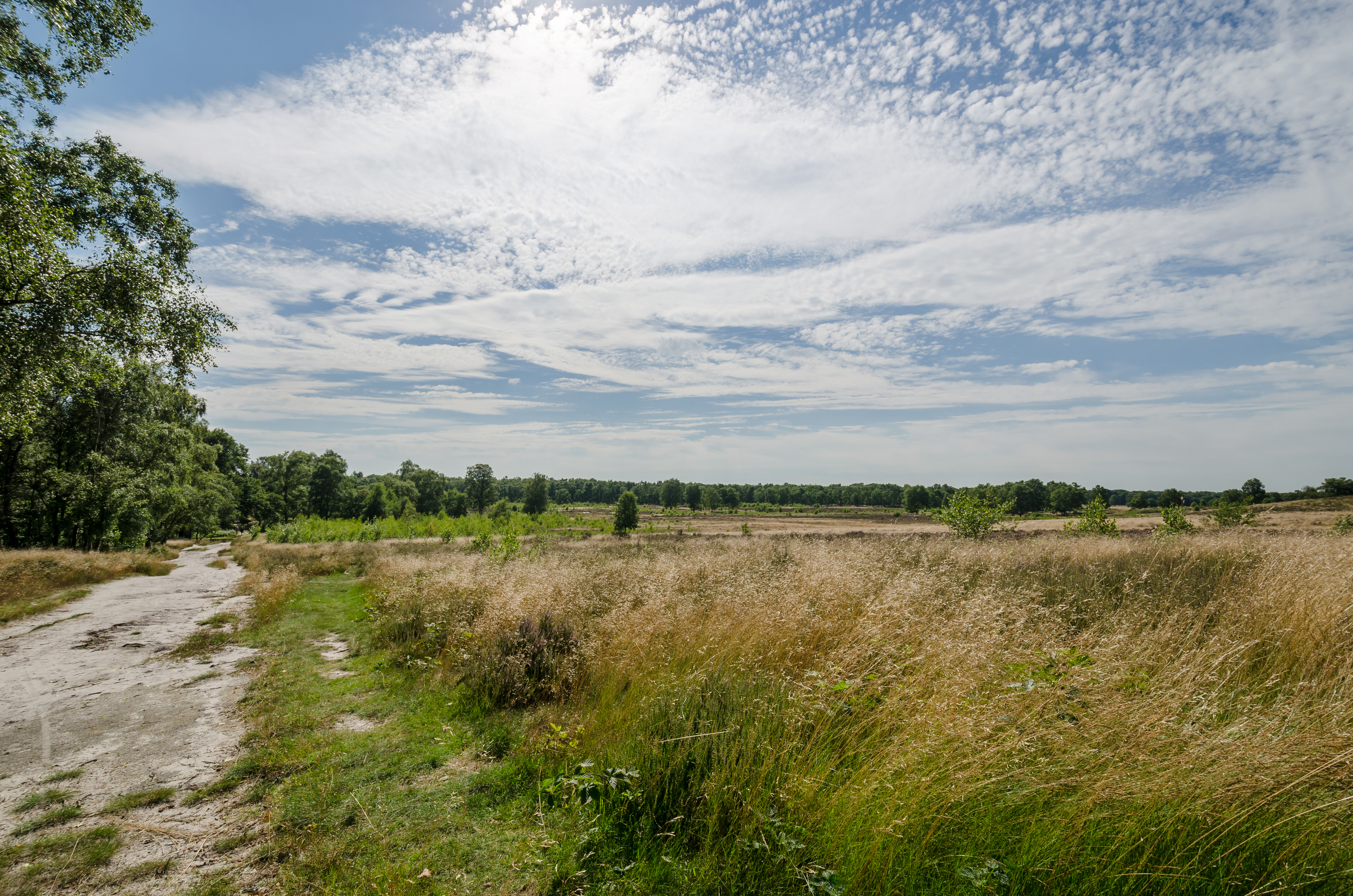 National Park Maasduinen in the region of Limburg